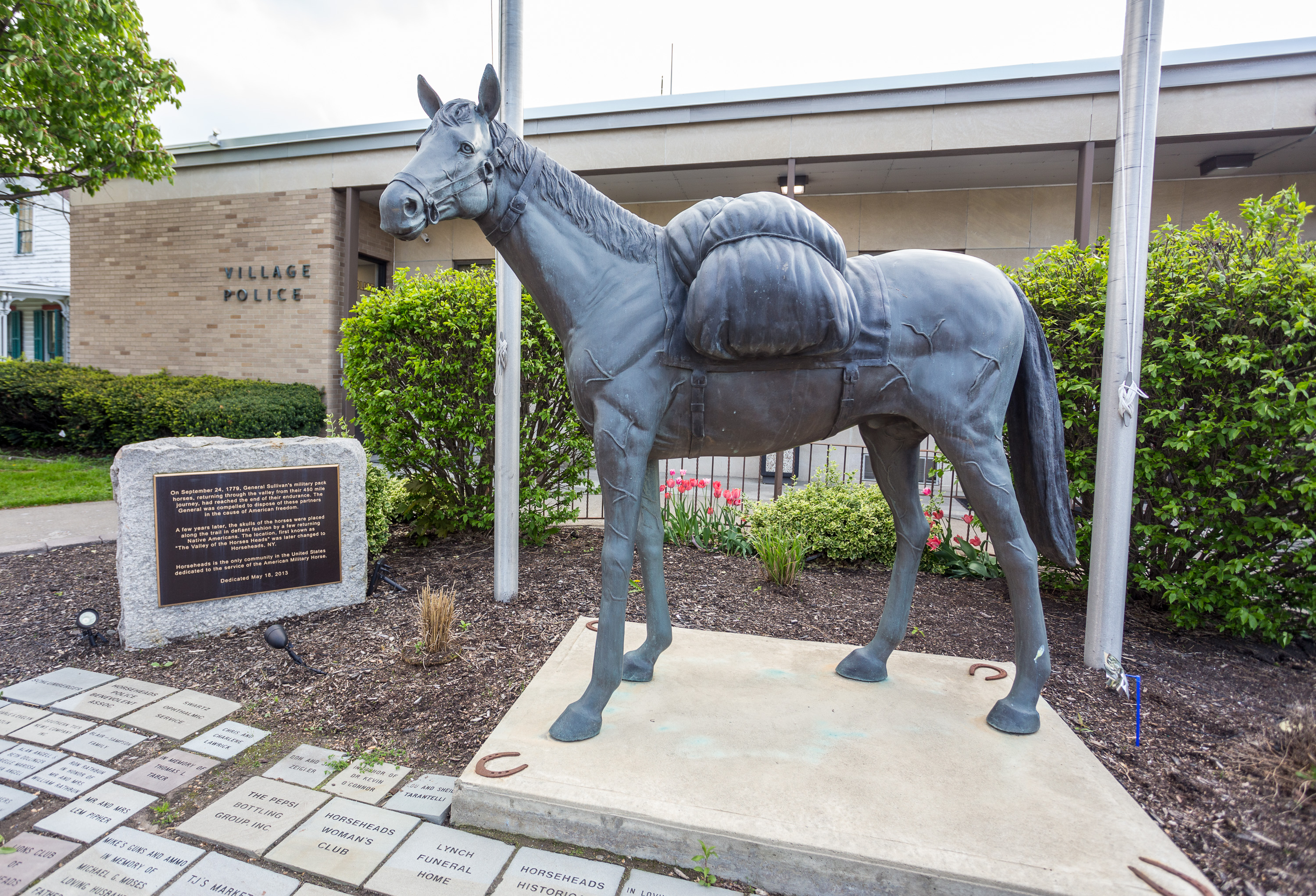 A monument to the horses of the Sullivan Expedition. Horseheads, New York, in front of the Village Police Station. Bronze plaque reads: "On September 24, 1779, General Sullivan's military pack horses, returning through the valley from their 450 mile journey, had reached the end of their endurance. The General was compelled to dispose of these partners in the cause of American freedom. A few years later, the skulls of the horses were placed along the trail in a defiant fashion by a few returning Native Americans. The location, first known as "The Valley of the Horse Heads" was later changed to Horseheads, NY. Horse heads is the only community in the United States dedicated to the service of the American Military Horse. Dedicated May 18, 2013"